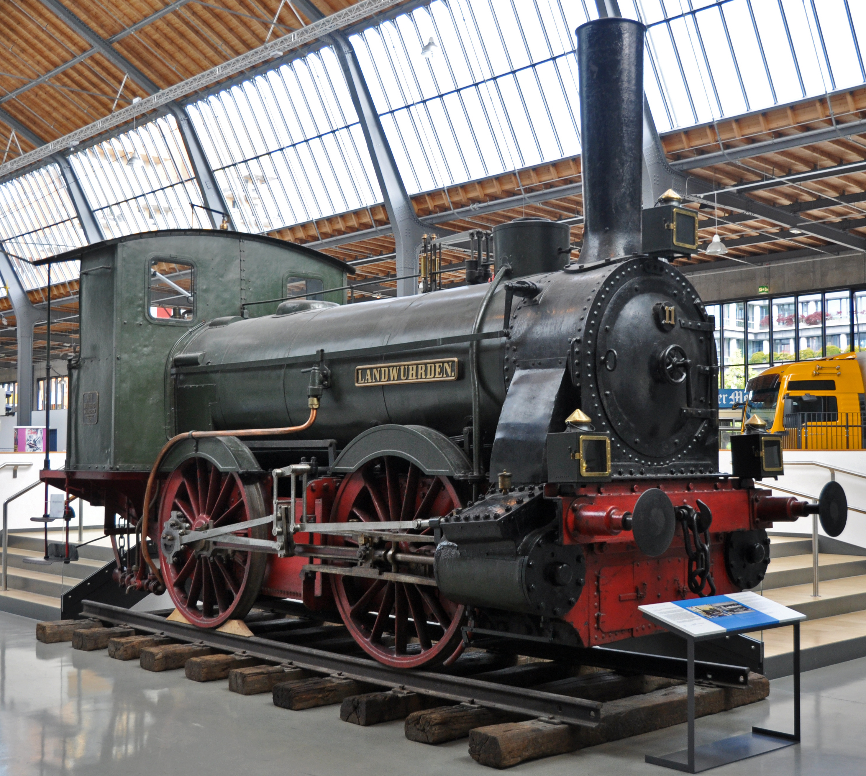 Steam locomotive Oldenburgian G 1 in Deutsches Museum - Verkehrszentrum in Munich.